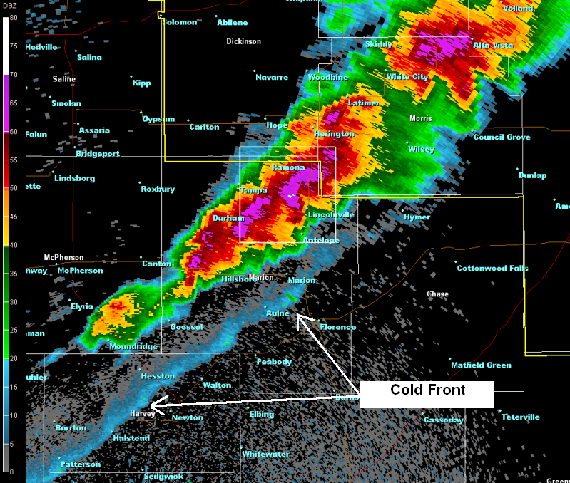 A radar image of severe thunderstorms over Marion County, Kansas on April 3, 2011. The storm produced hail to 2 inches (5.1 cm) in diameter (hen egg size) in Marion County. The radar image also shows a cold front, which is the thin blue line labeled as such.